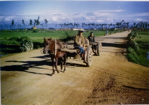 Chinese farmers with a horse-drawn vehicle